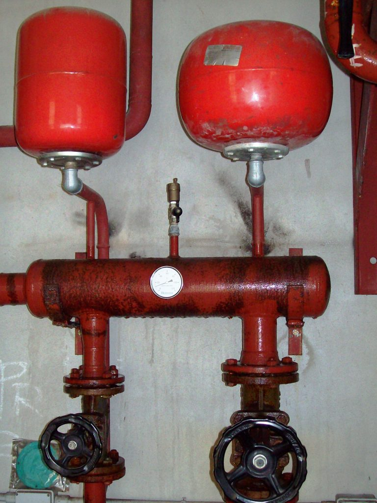 autoclaves connected to an hydraulic system